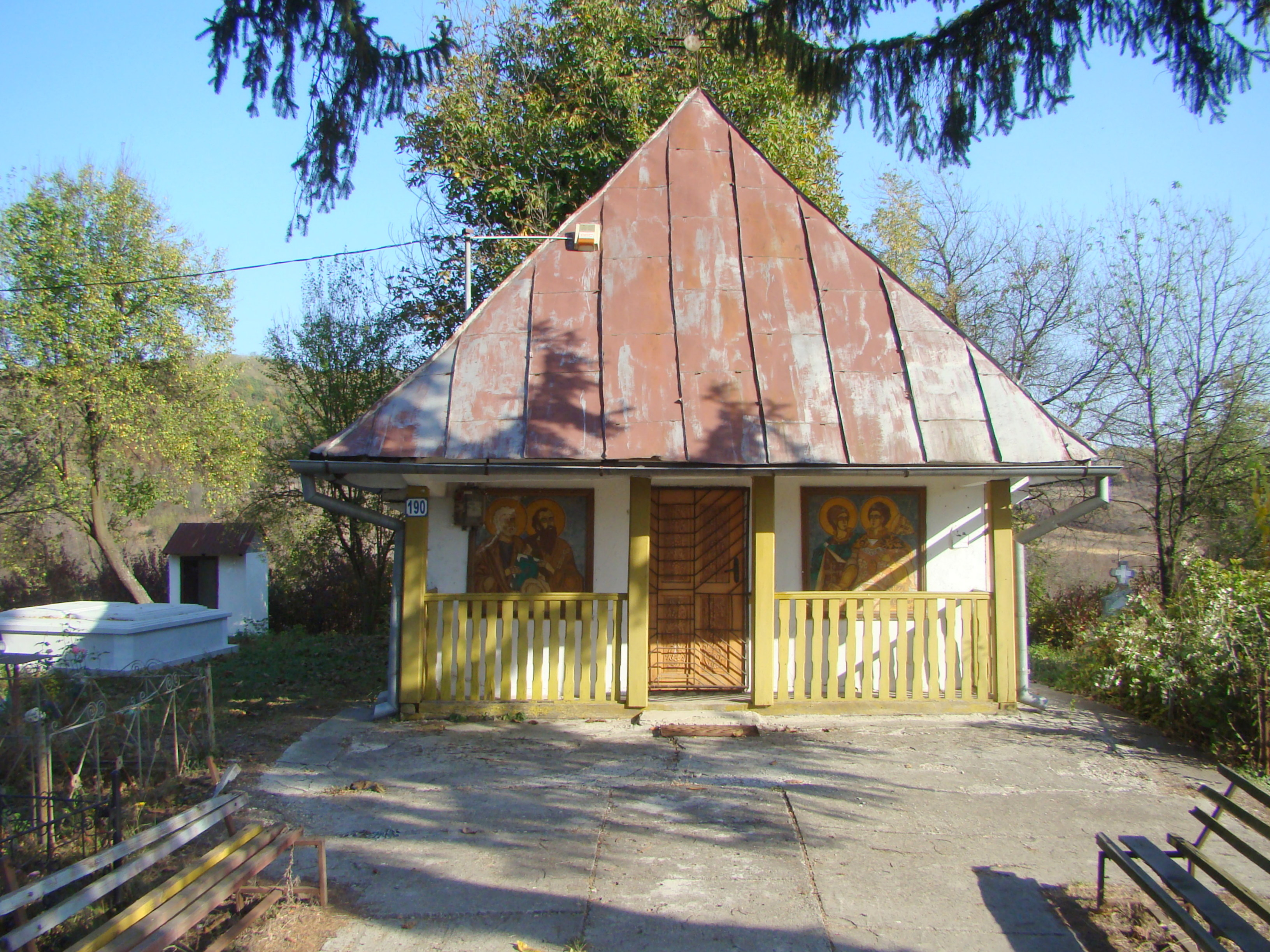 Saint George's wooden church in Valea Mânăstirii, Gorj county, Romania